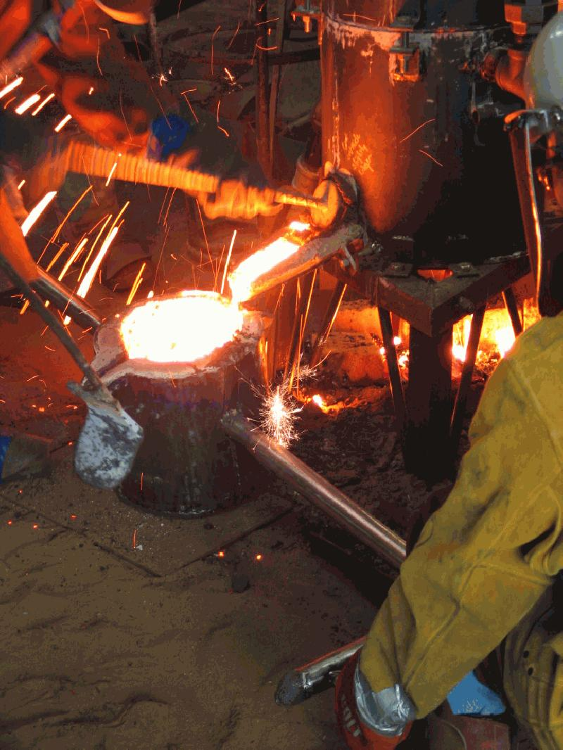 Casting Iron at Wayne State University in Detroit, Michigan